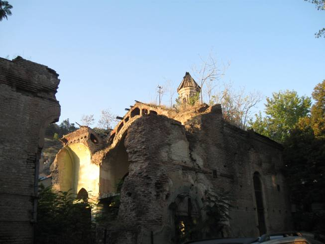 Saint Gevorg of Mughni Armenian Church, Old Tbilisi